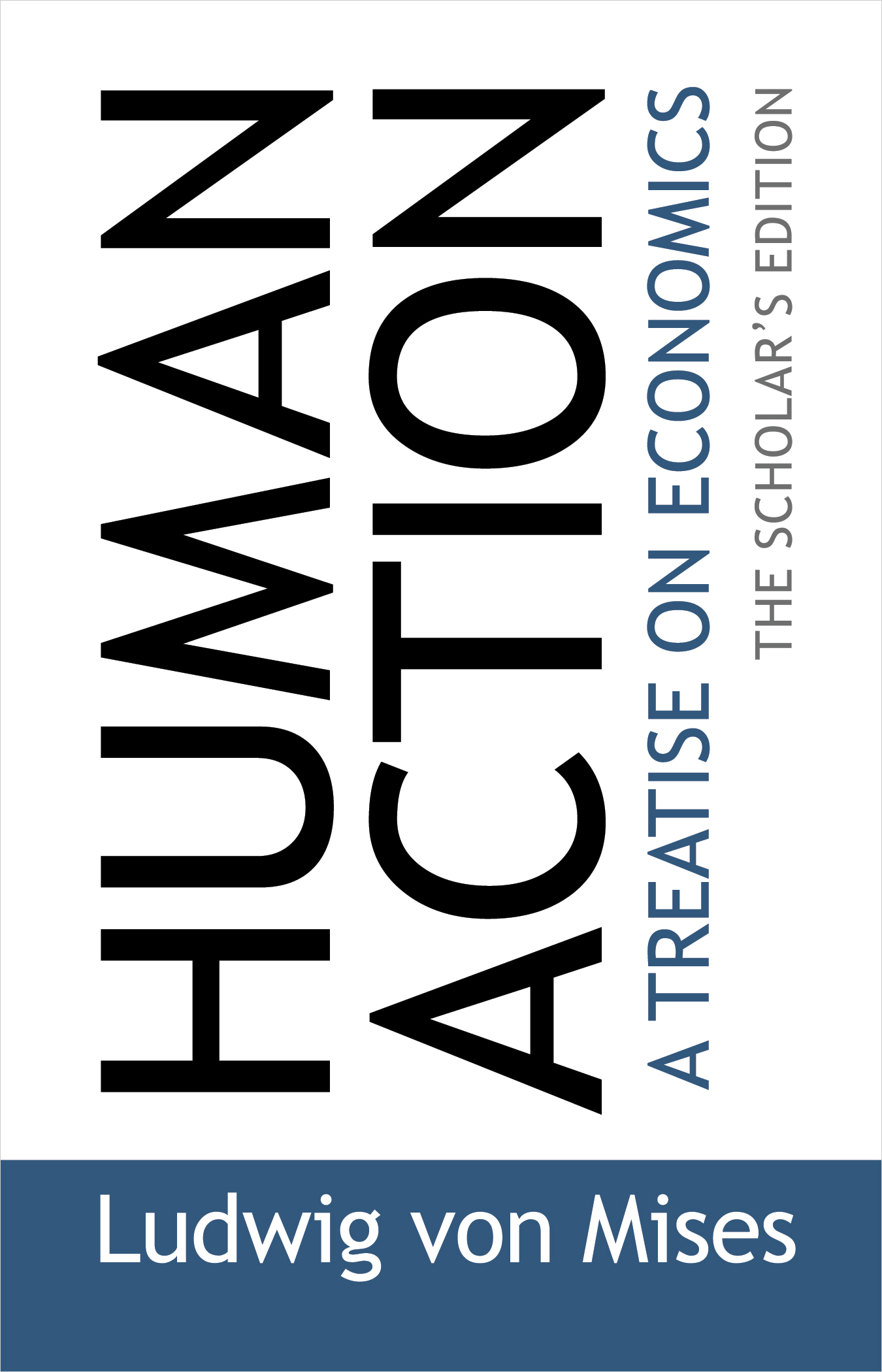 Cover of the 2010 pocket edition of Human Action by Ludwig von Mises